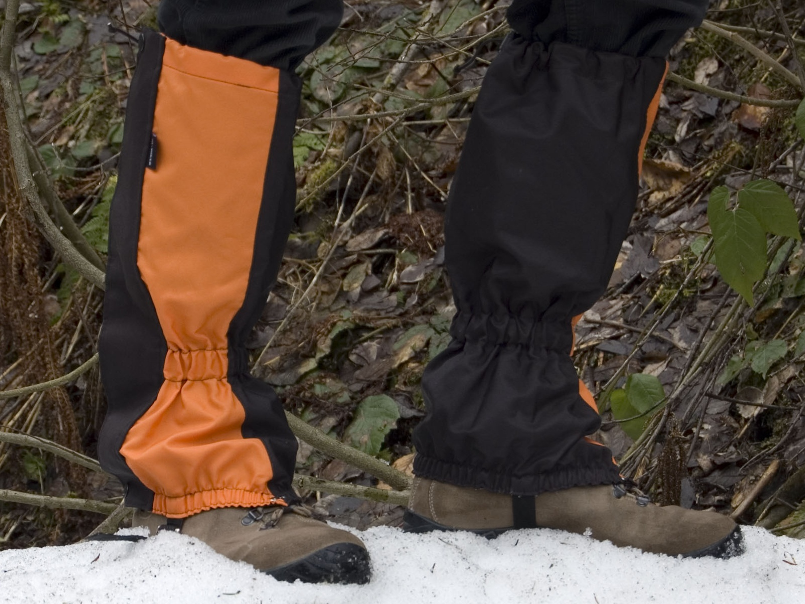 Gaiters worn by the tourist.